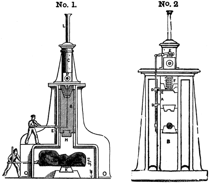 Nasmith's steam hammers. 1 - copy from specification of Nasmith's Patent of 1842, 2 - steam hammer of 1843.